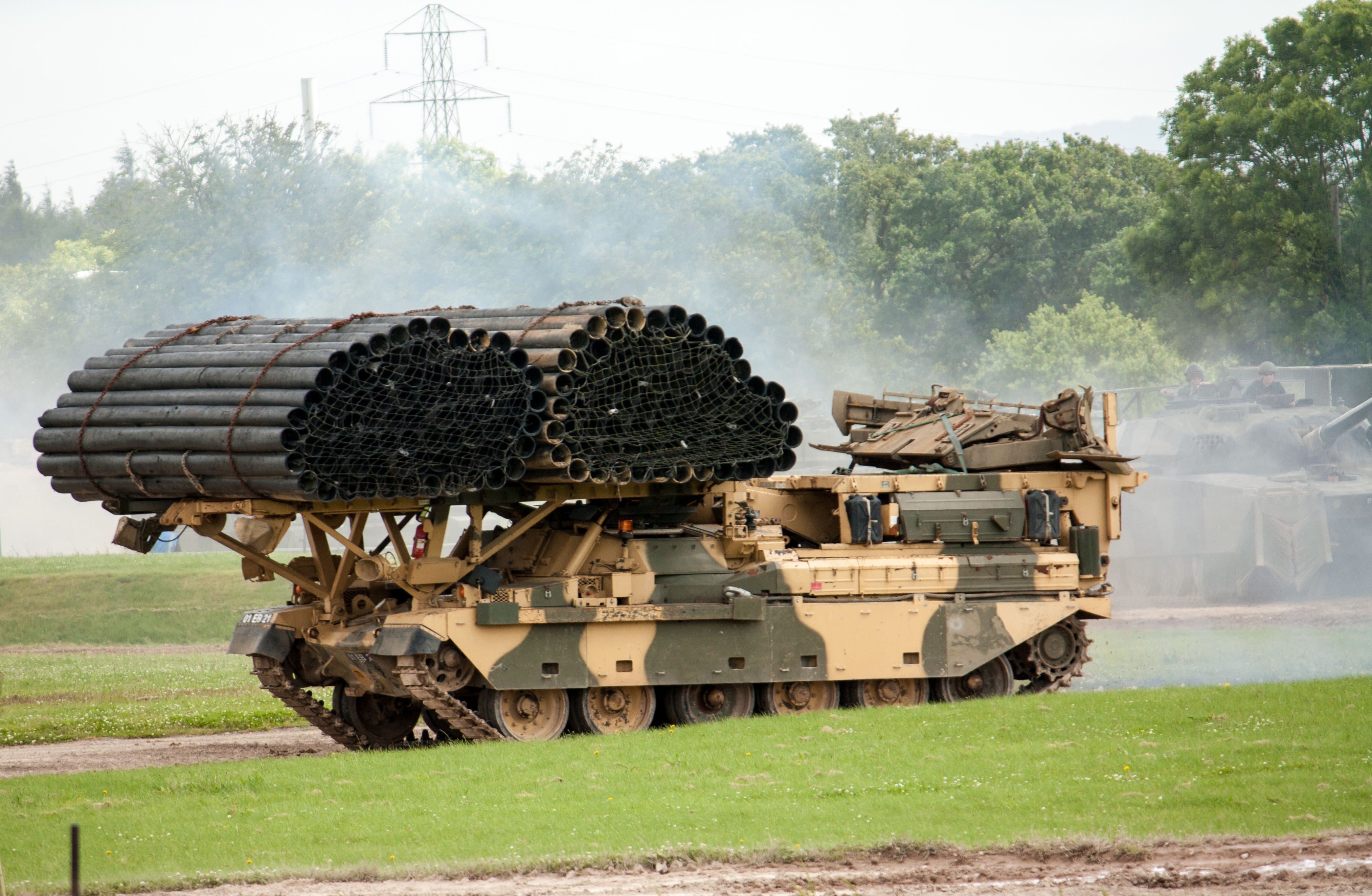 Chieftain AVRE